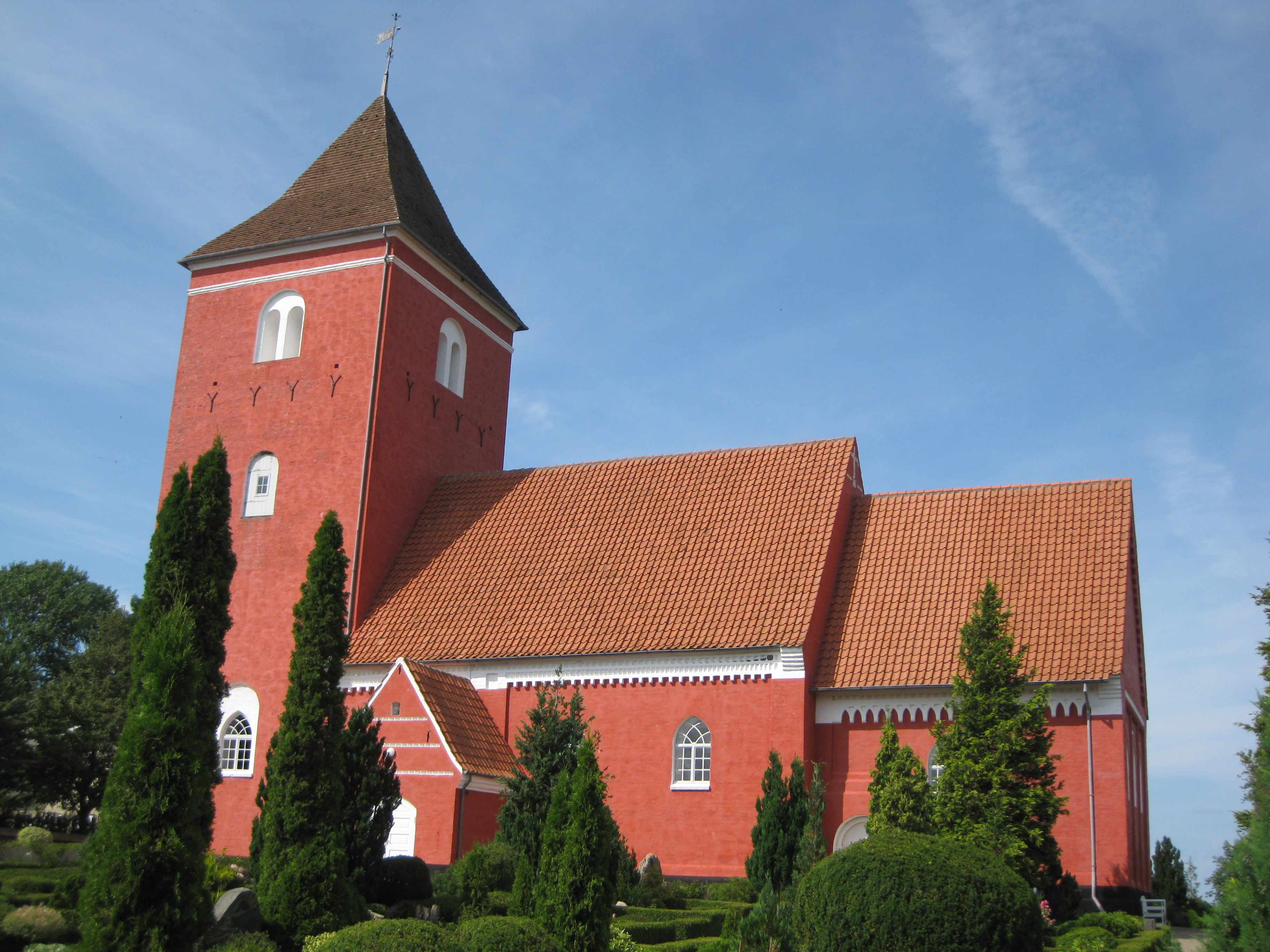 The church "Våbensted Kirke" in the village "Våbensted". The village is located on the island Lolland in east Denmark.